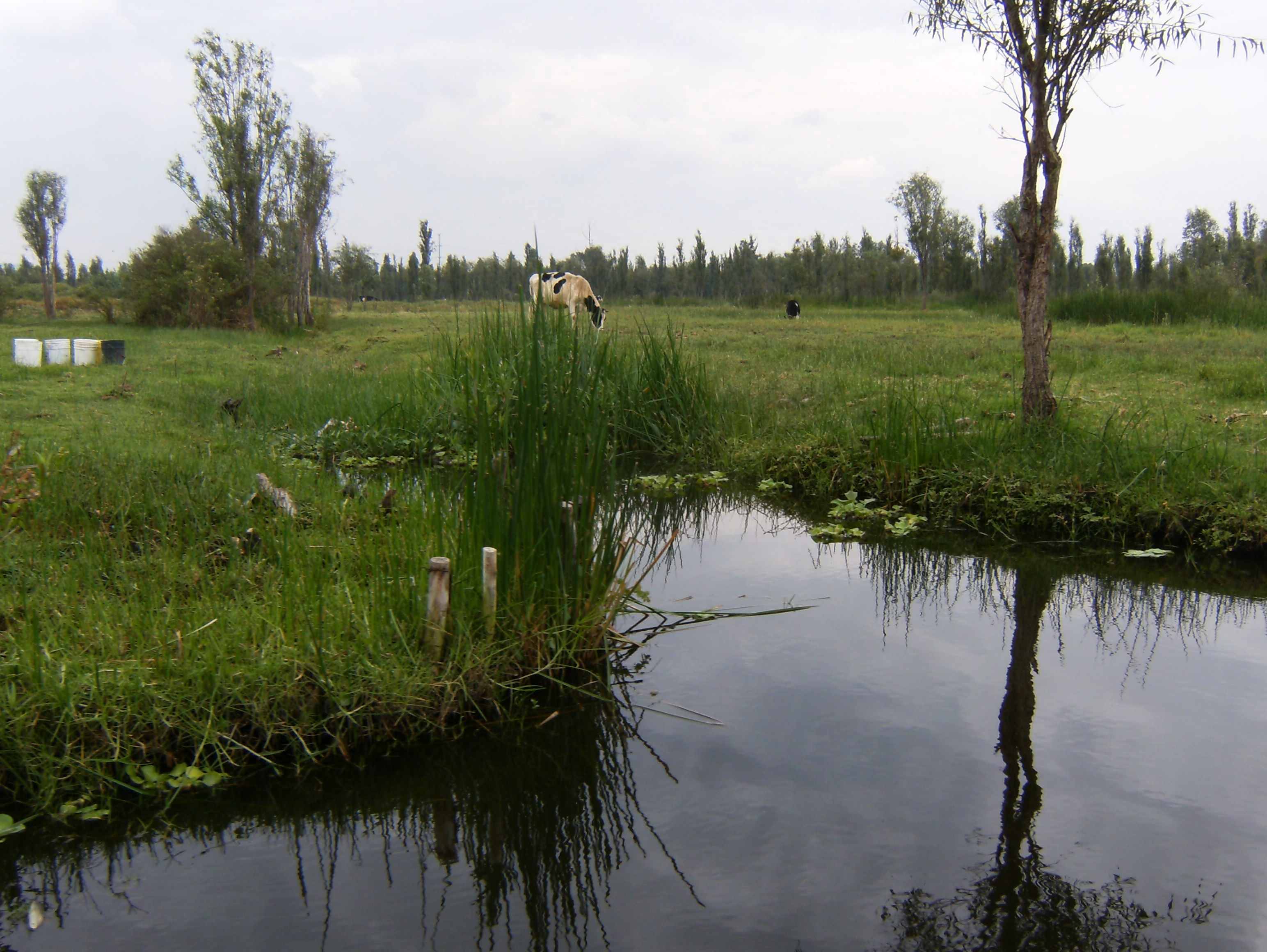 Cows grazing in the Parque Ecológico de Xochimilco